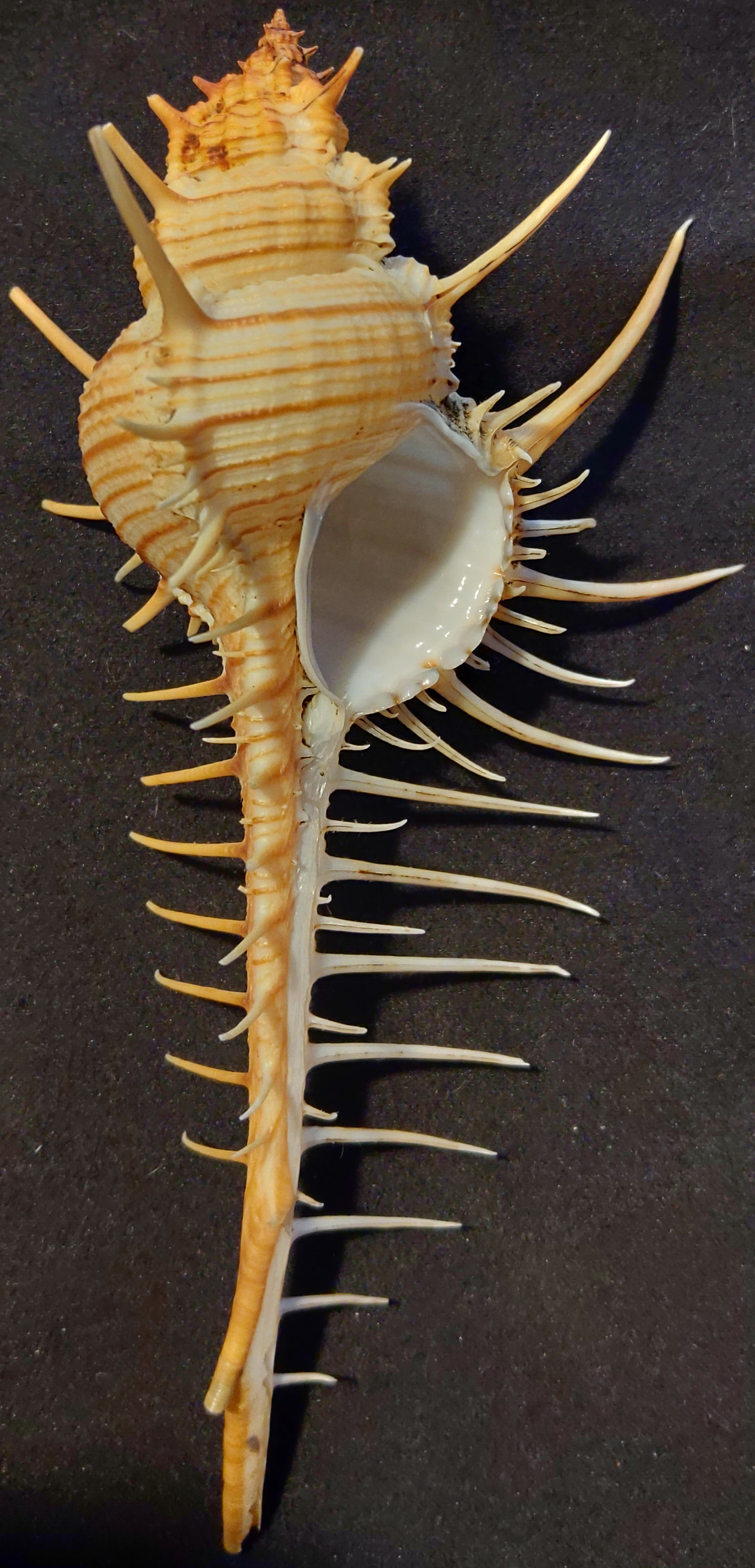 Murex Troscheli Back.